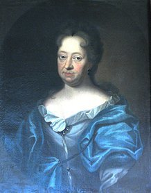 Margrethe Knudsdatter Ulfeldt, til Totterupholm (Rosendal)m Danish landowner